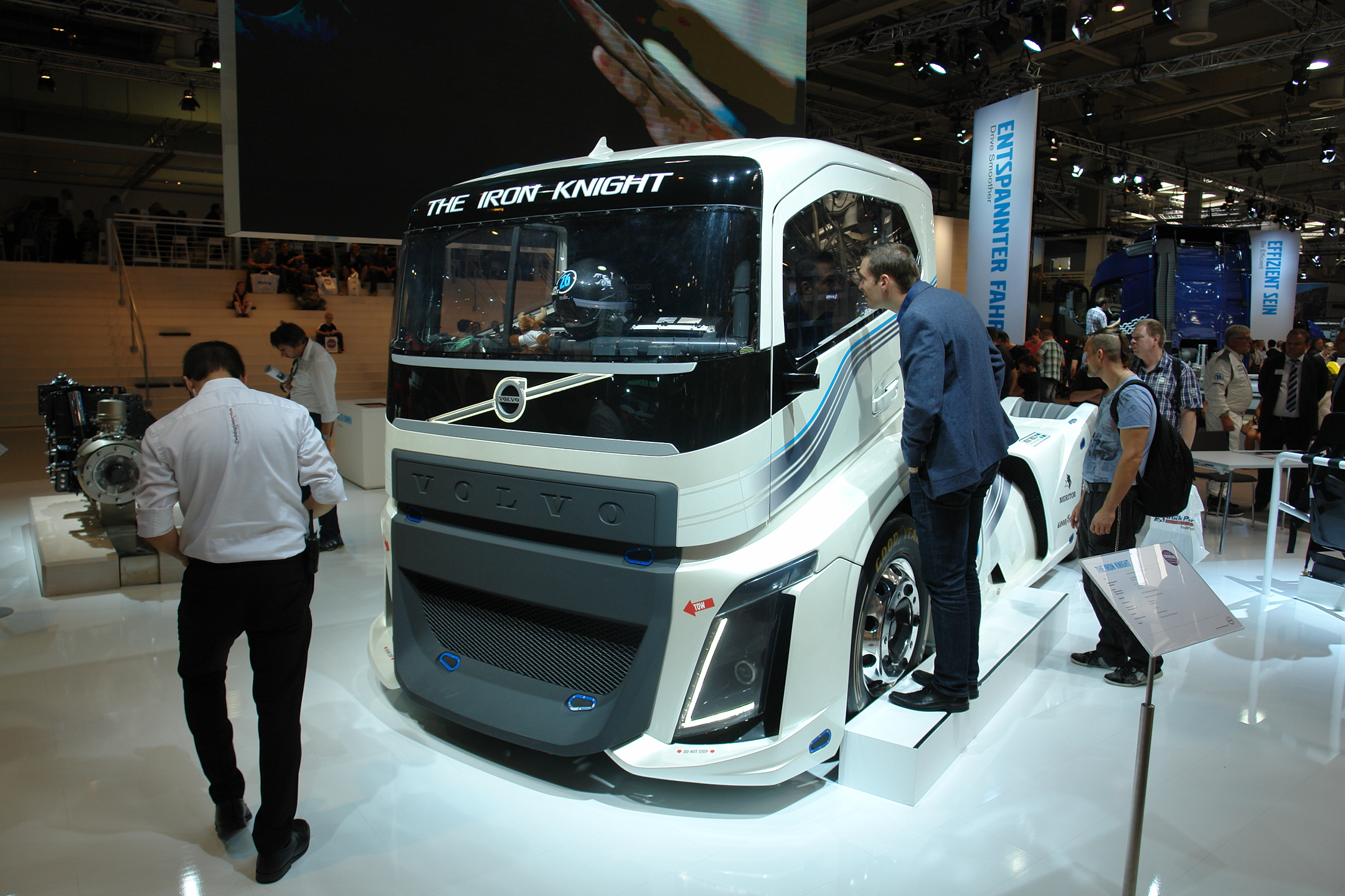 IAA 2016 at Hannover